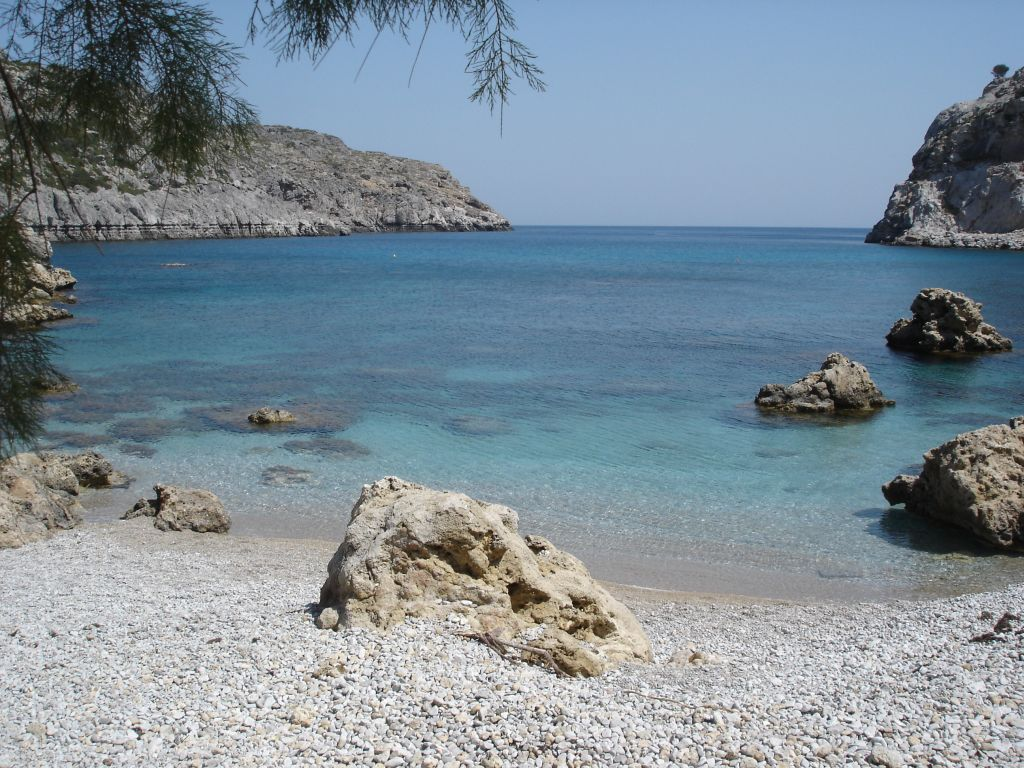 Anthony Quinn bay, Rhodes, Greece